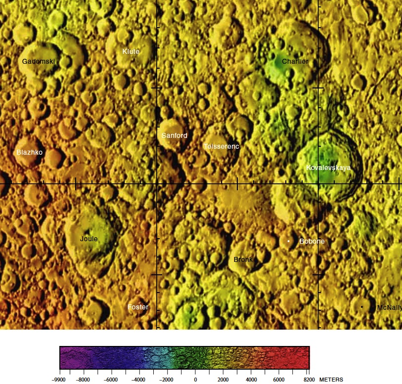 Part of the USGS far side lunar chart.